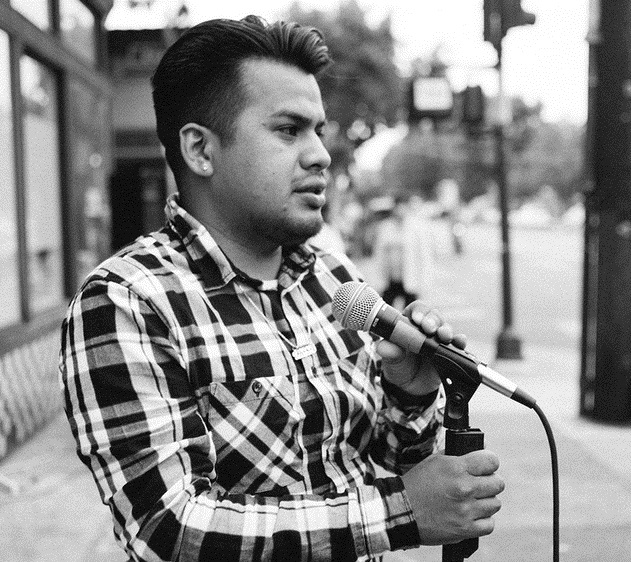 Photo of poet Yosimar Reyes